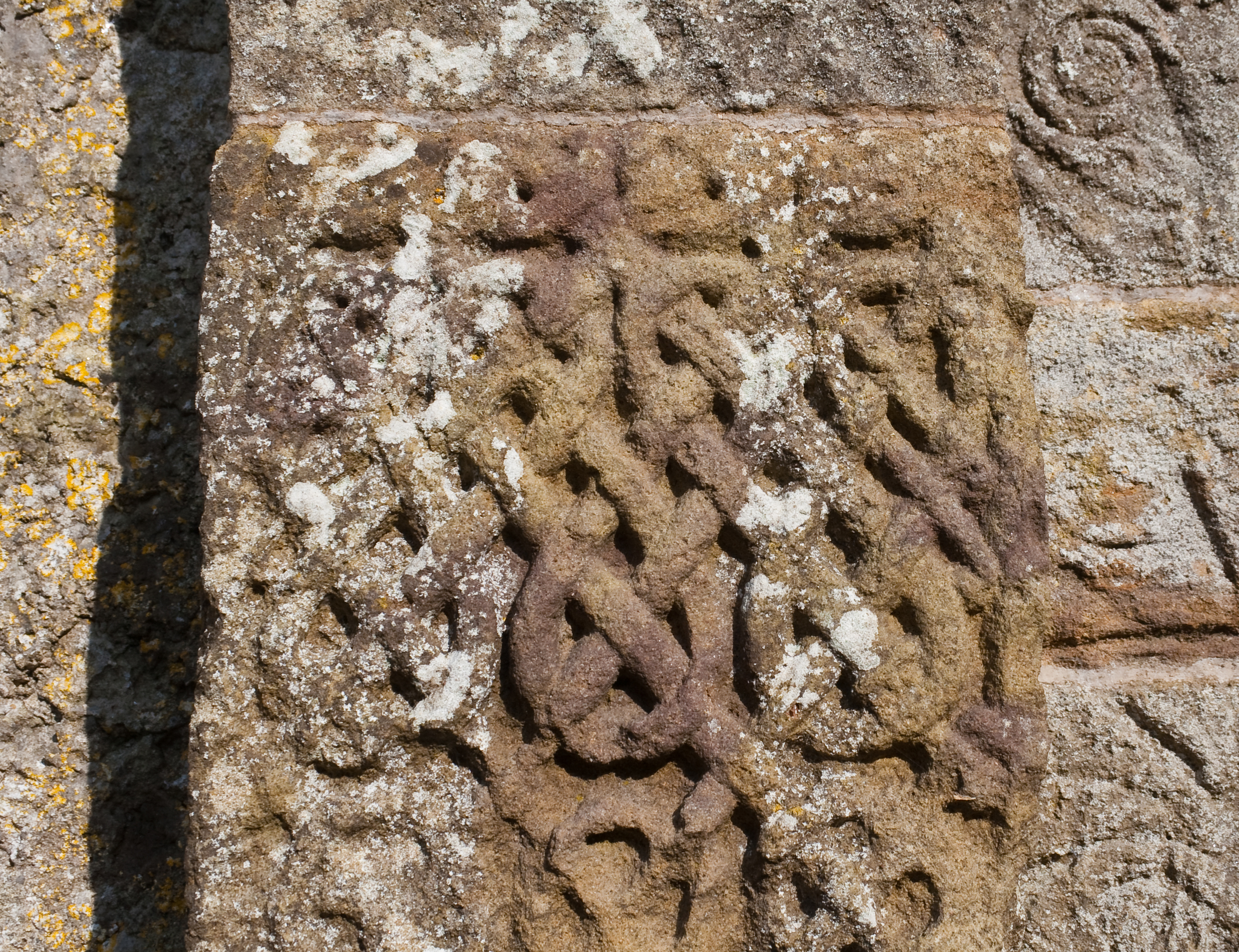 Clonfert Cathedral, Clonfert, County Galway, Ireland Interlace pattern of the outern ring of the left jamb of the western portal. 12th-century work in soft sandstone.